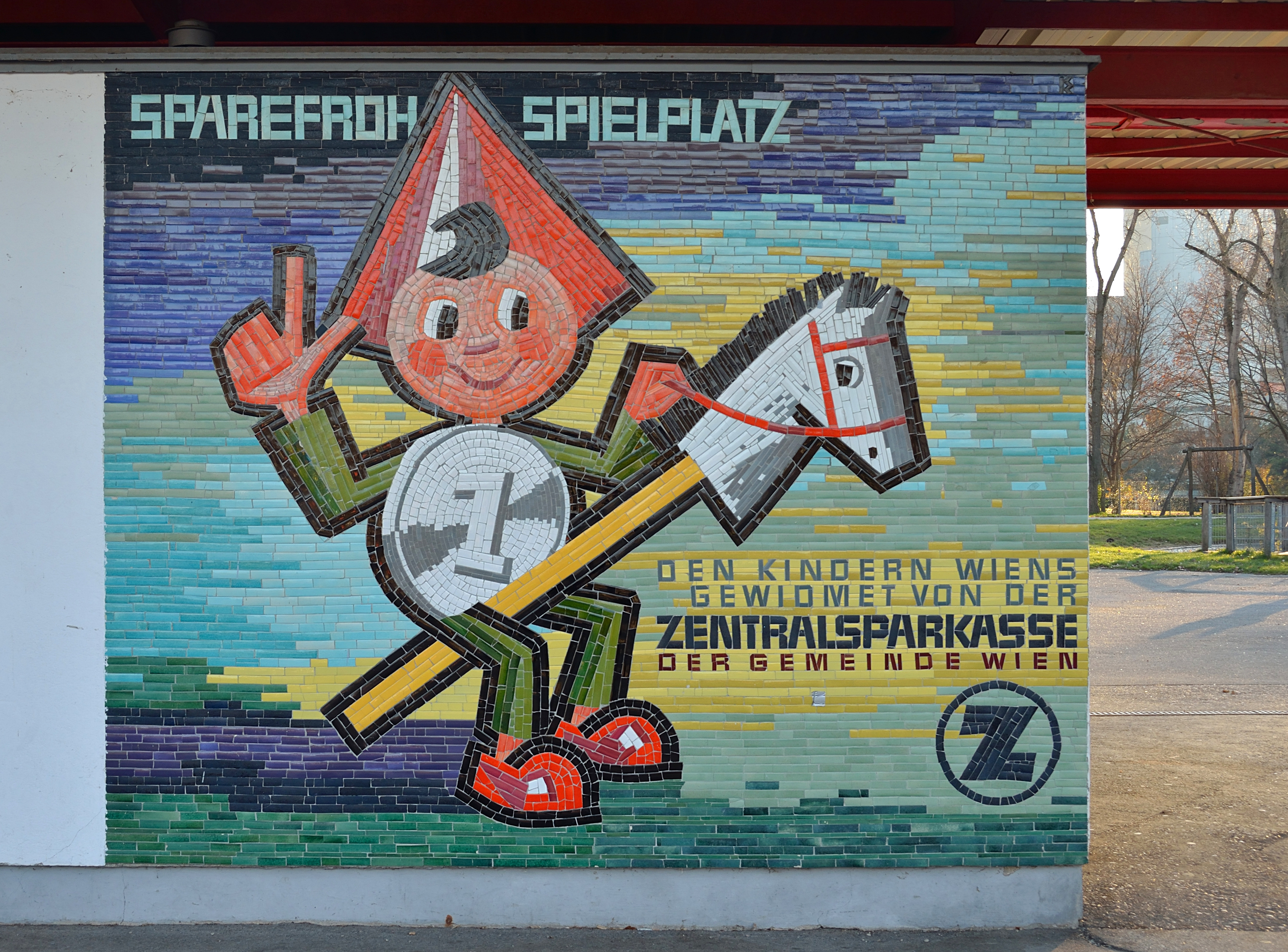 Mosaic of Sparefroh at the entrance to the playing ground at Donaupark, Vienna.